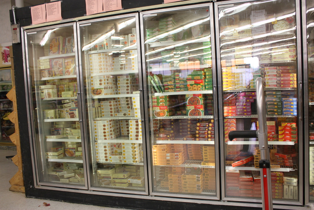 Frozen Indian foods. Photographed in Bellevue, Washington, if the location is accurate.